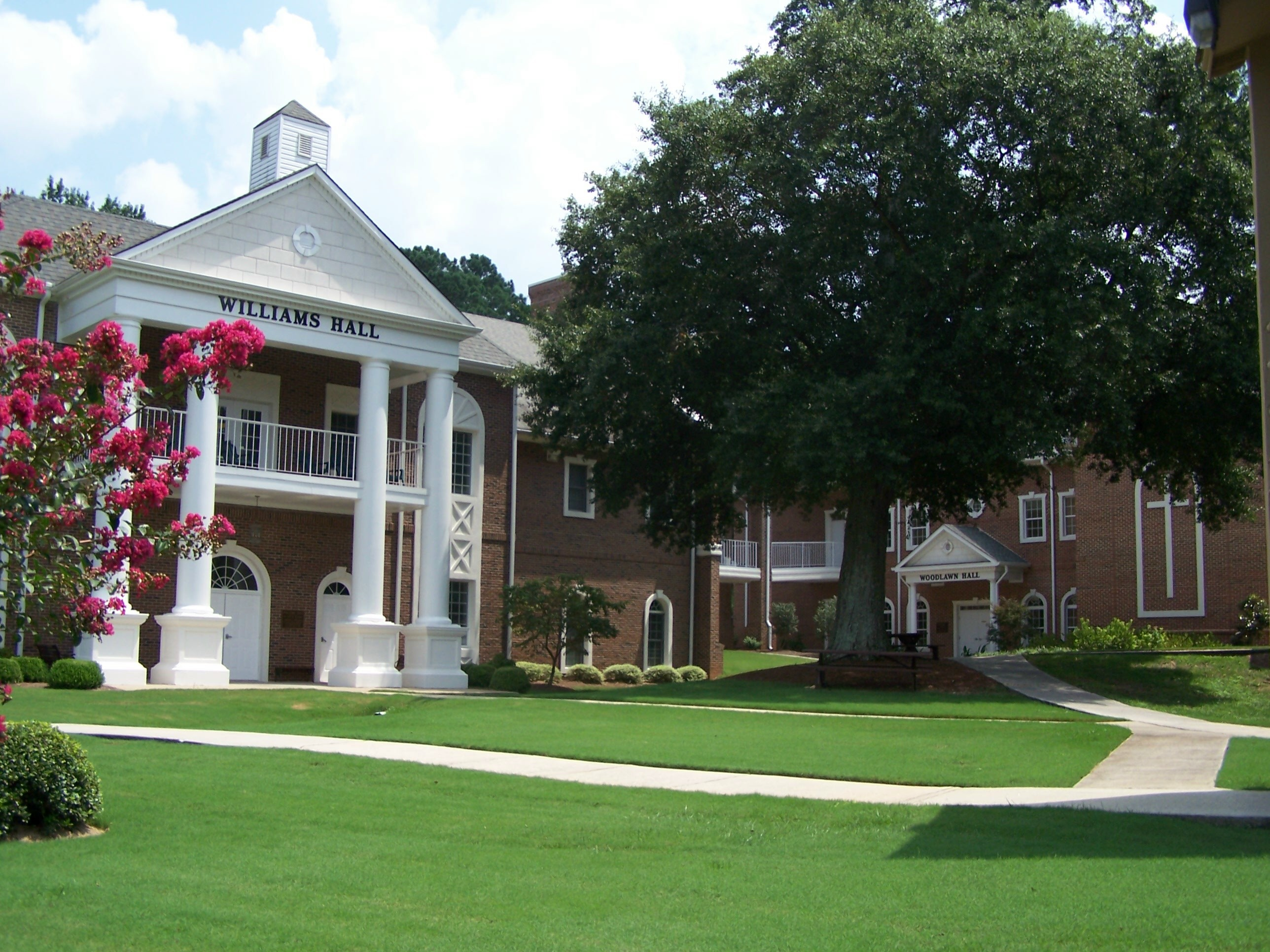 Beautiful campus building at Luther Rice Seminary and University